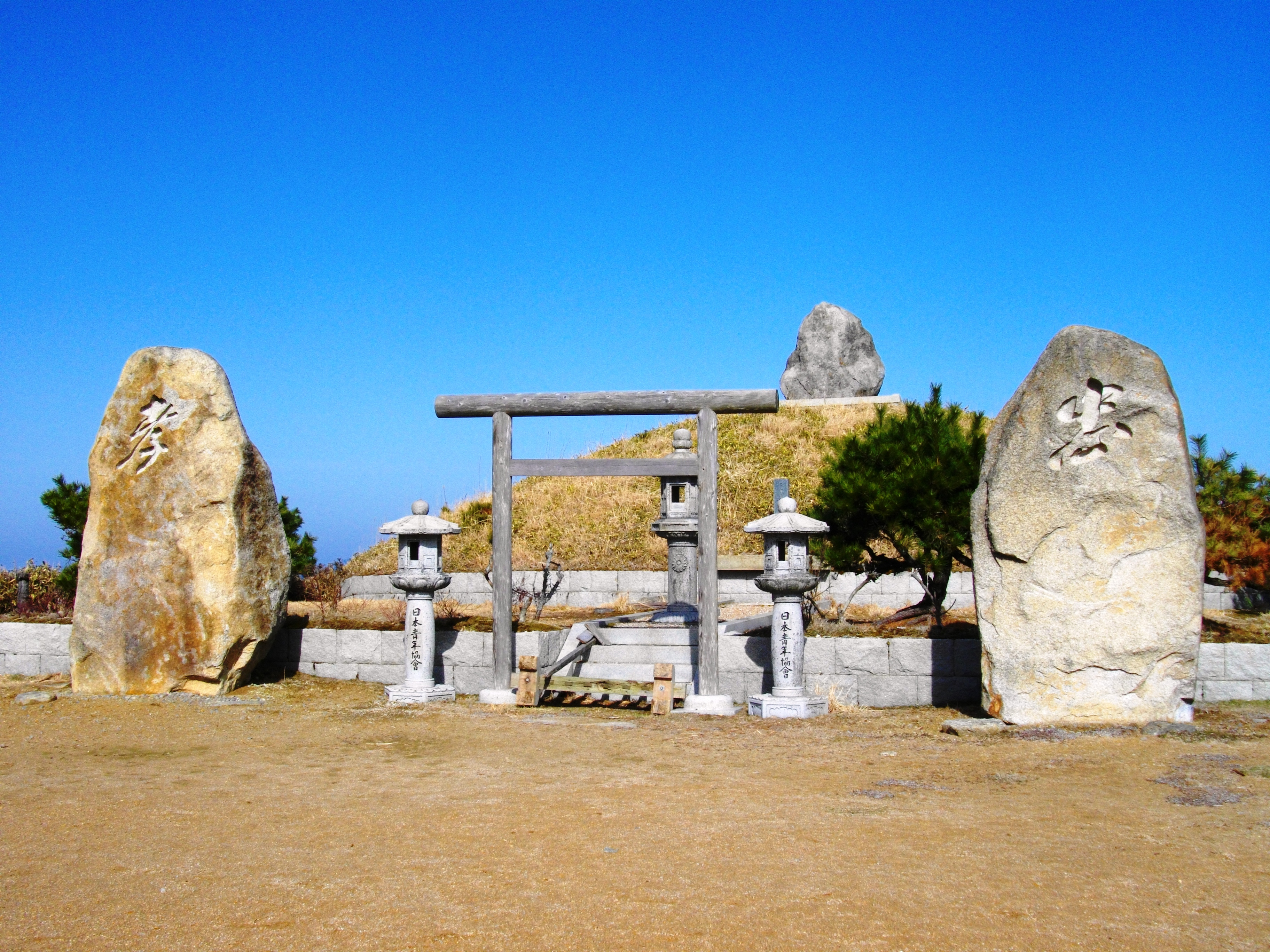 Misengu Shinto Shrine on the top of Mount Miyama, Honshu, Japan.